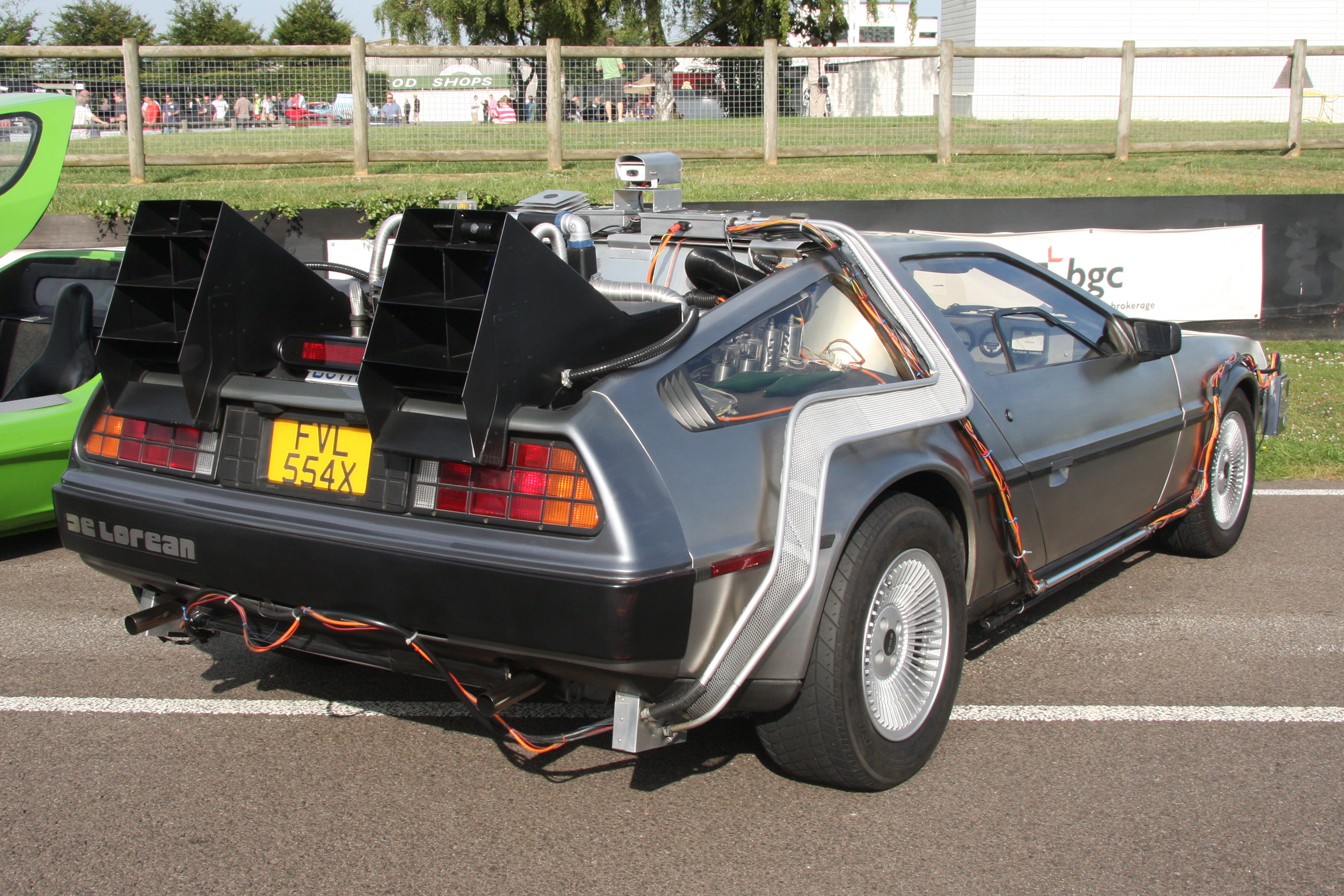 Back to the future again